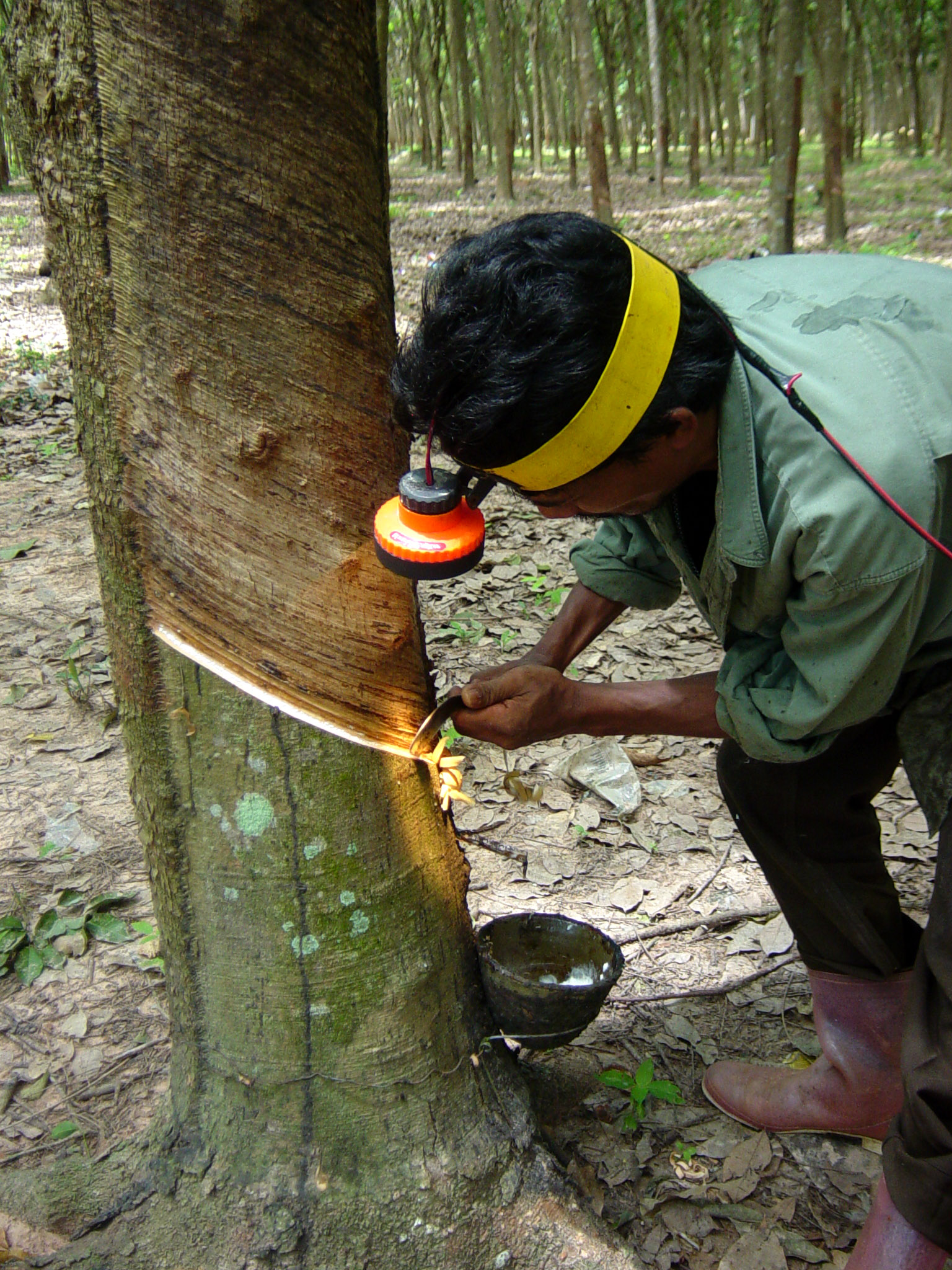 A workman taps a rubber tree, at a rubber plantation in south-central Thailand. Small plantation owners process rubber latex up to this point, then sell the sheets to a larger processor. Normally this work is done early in the morning. This photograph was taken during the day, and he wore the headlamp simply for demonstration purposes.